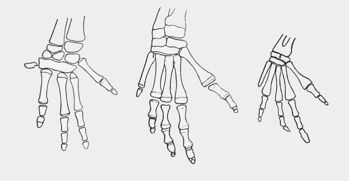 Variation in the skeleton of the forelimb of the Dugong